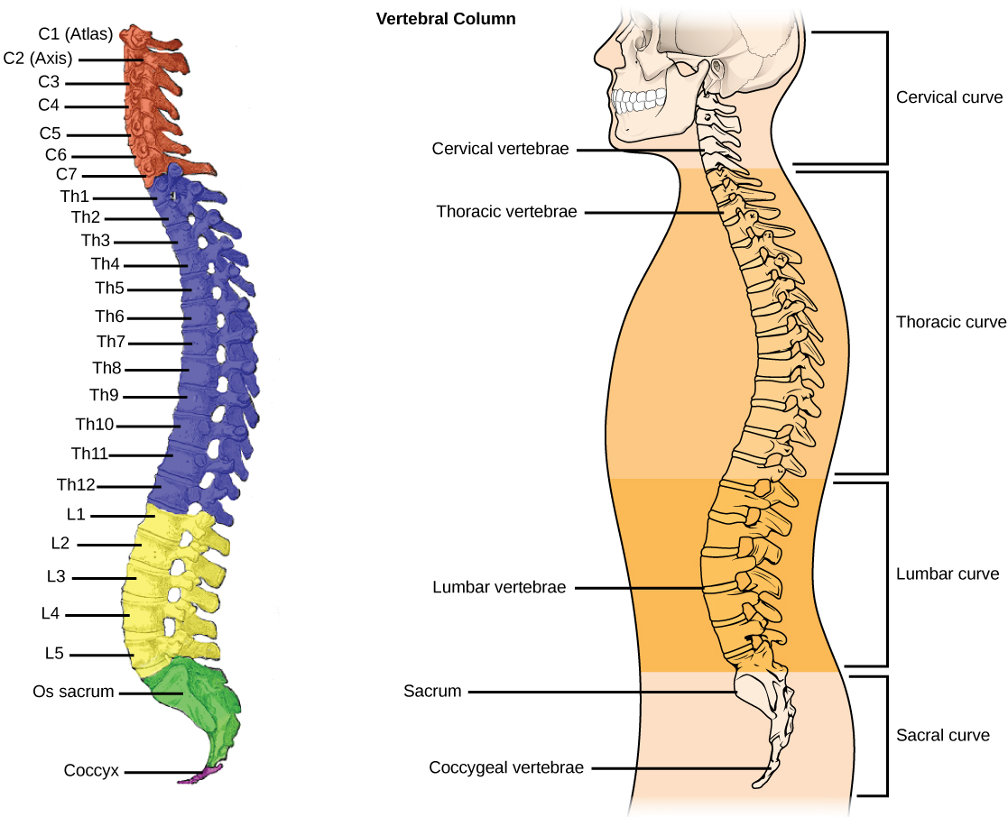 Name: Biology ID: Language: English Summary: Biology is designed for multi-semester biology courses for science majors. It is grounded on an evolutionary basis and includes exciting features that highlight careers in the biological sciences and everyday applications of the concepts at hand. To meet the needs of today’s instructors and students, some content has been strategically condensed while maintaining the overall scope and coverage of traditional texts for this course. Instructors can customize the book, adapting it to the approach that works best in their classroom. Biology also includes an innovative art program that incorporates critical thinking and clicker questions to help students understand—and apply—key concepts. Subjects: Science and Technology Keywords: cells,DNA,gene,expressio,nphylogeny,conservation,biodiversity,biology,chemistry,evolution,proteins,bacteria,fungi,cell,membranes,inheritance,physiology,ecology,genetics,biotechnology,biosphere,photosynthesis,biological,molecules,cell structure,metabolismc,ellular respiration,genes,cell communication,cell reproduction,meiosis,sexual reproduction,genomics,study of life,cell function,animal diversity,animal reproduction,plant nutrition,soilseedless plantsplant physiologyplant reproductionanimal bodycirculatory systemdigestive systemendocrine systemnervous systemrespiratory systemorigin of speciesecosystemsarchaeasensory systemosmotic regulationimmune systemvertebratesviruspopulation ecologymusculoskeletal systembehavioral biologyanimal biologyanimal physiologybiology for majorscollege biologyeukaryotesinvertebratesmacromoleculesplant biologypopulation evolutionprokaryotesprotistsseed plants Print Style: CCAP Biology License: Creative Commons Attribution License (by 4.0) Authors: OpenStax Copyright Holders: Rice University Publishers: OpenStax OpenStax Biology Latest Version: 10.53 First Publication Date: Aug 22, 2012 Latest Revision: May 27, 2016 Last Edited By: OpenStax Biology